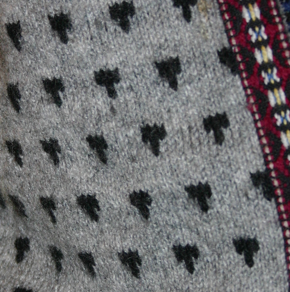 Lusekofte detail, showing lusekofte pattern.